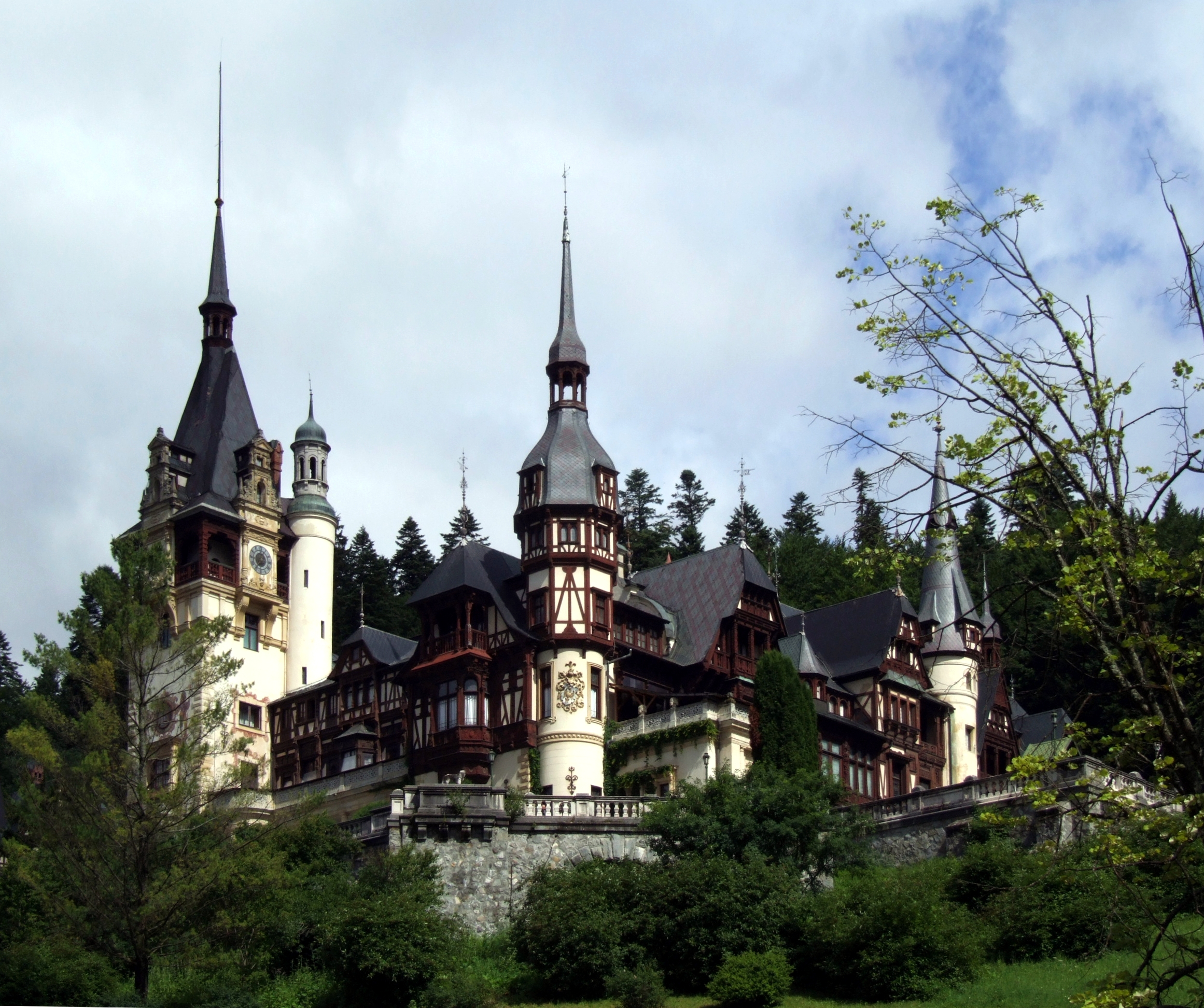 Castle Peleş, Sinaia 01